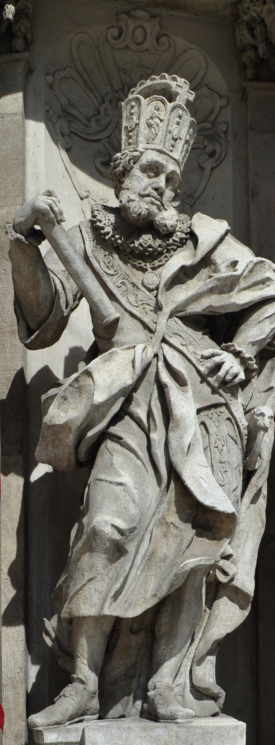 Jobst of Moravia from the House of Luxemburg: German King (King of the Romans), Margrave of Moravia, Duke of Luxembourg, Elector of Brandenburg - statue on the right side of portal of the Governor's palace in Brno